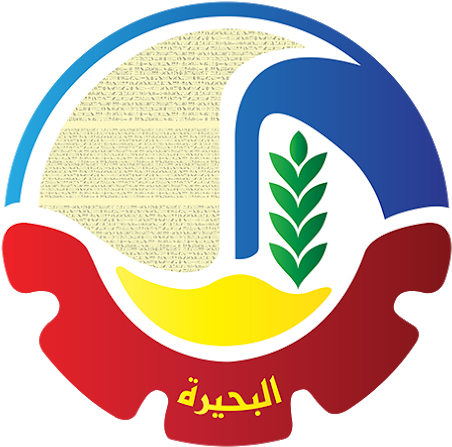 Coat of arms of Behira Govenorate